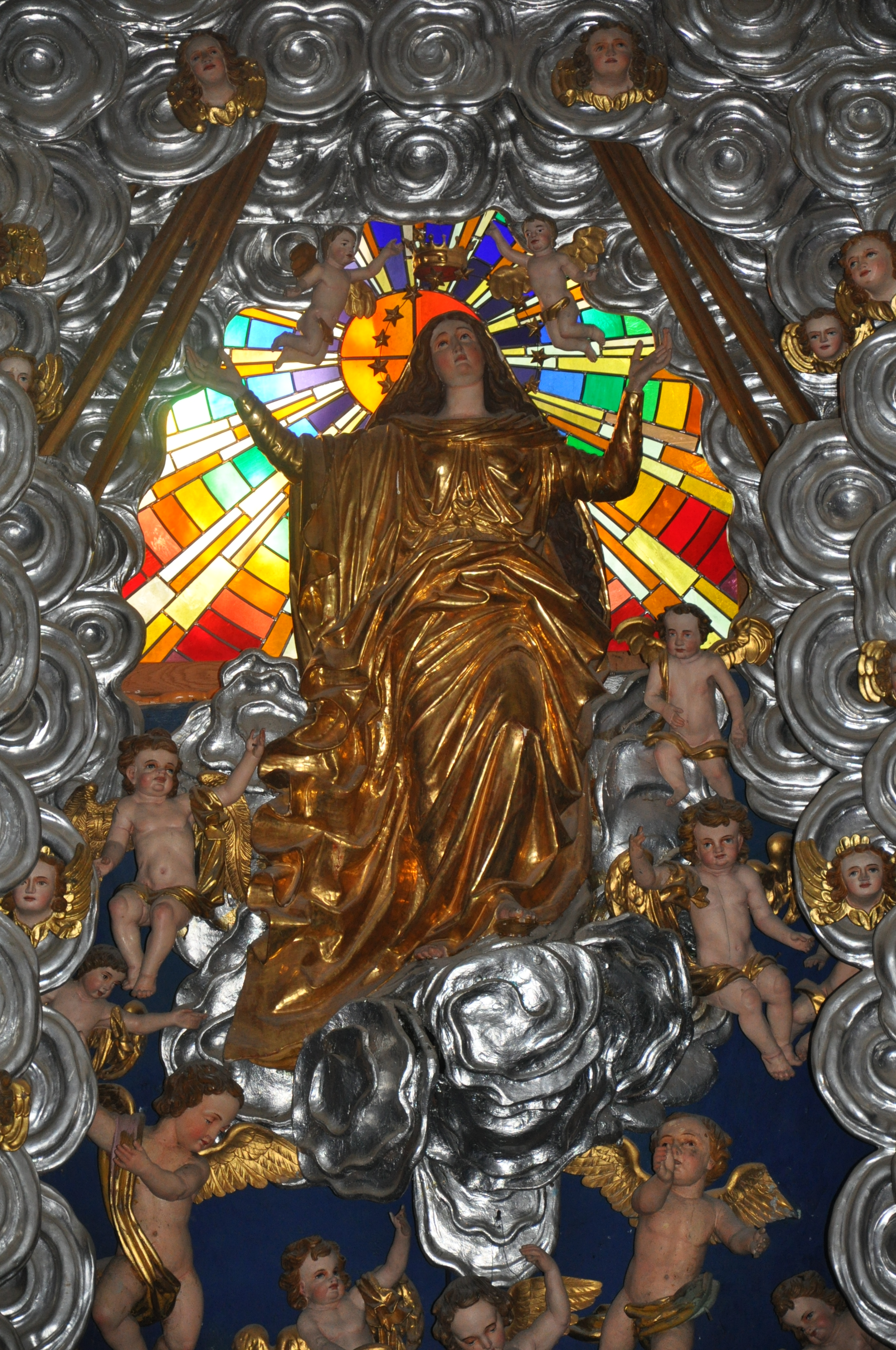 Nova Štifta church, Slovenia